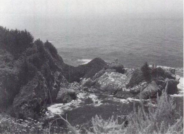 McWay Falls on July 10, 1963, falling directly into the ocean, before landslides and construction debris caused a beach to form.